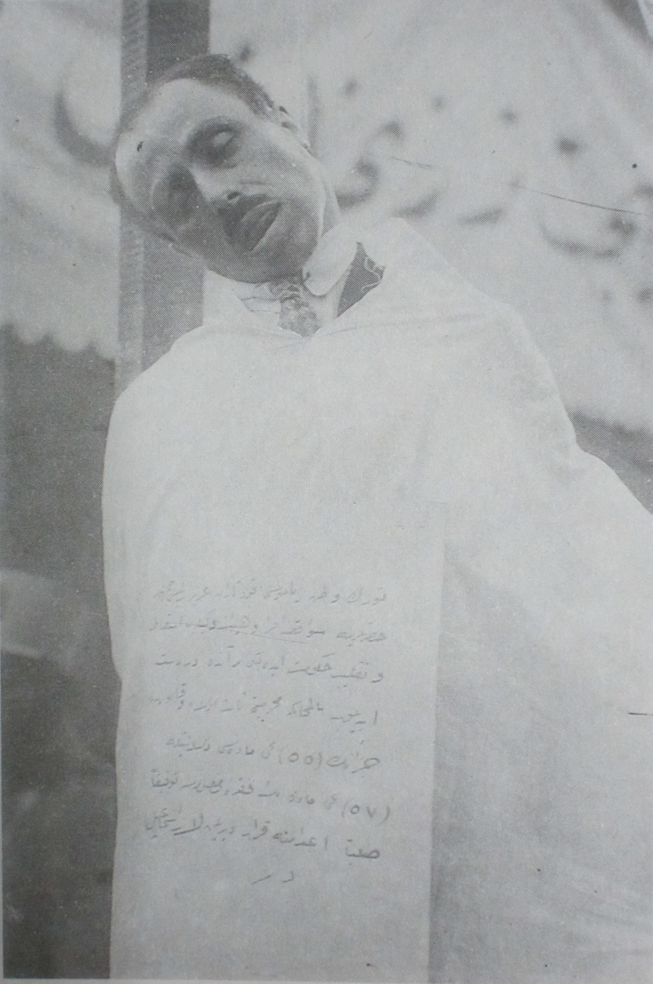 Laz Ismail hung on the gallows treeTürkçe: Laz İsmail idam sehpasında